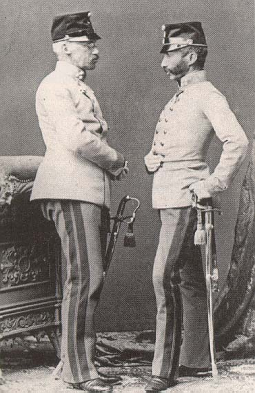 LEFT: Archduke Archduke Albrecht, Duke of Teschen (1817-1895), Field marshal, RIGHT: younger brother Archduke Albrecht, Duke of Teschen (1818-1874), both sons of Archduke Karl of Austria (the victor of Aspern 1809.)